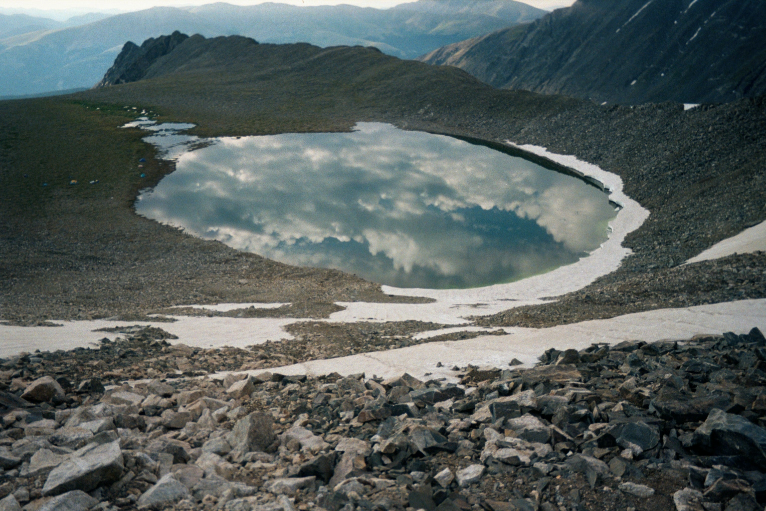 Photo taken from Pacific Peak showing Pacific Tarn, the highest lake in the United States, near Breckenridge, Colorado USA.